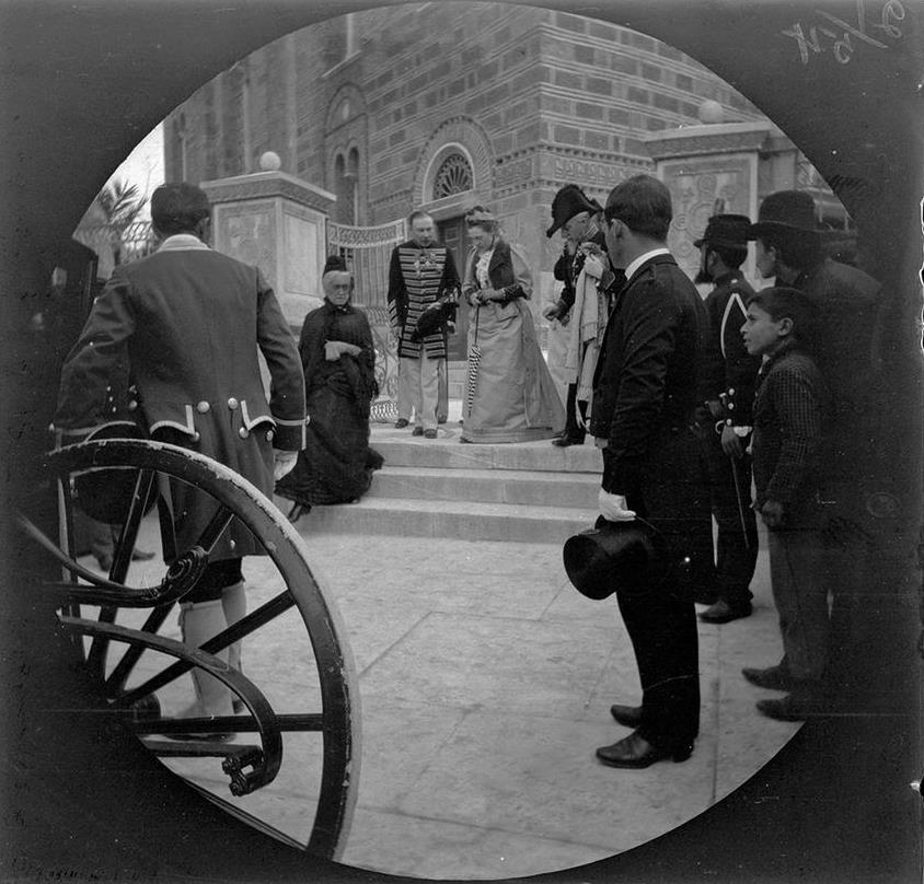 Queen Olga of Greece leaving the Holy Trinity Church of Athens after the service on 14 March 1891